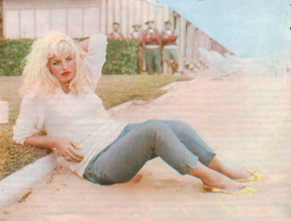 Austrian actress Barbara Valentin relaxing in Venice, Italy